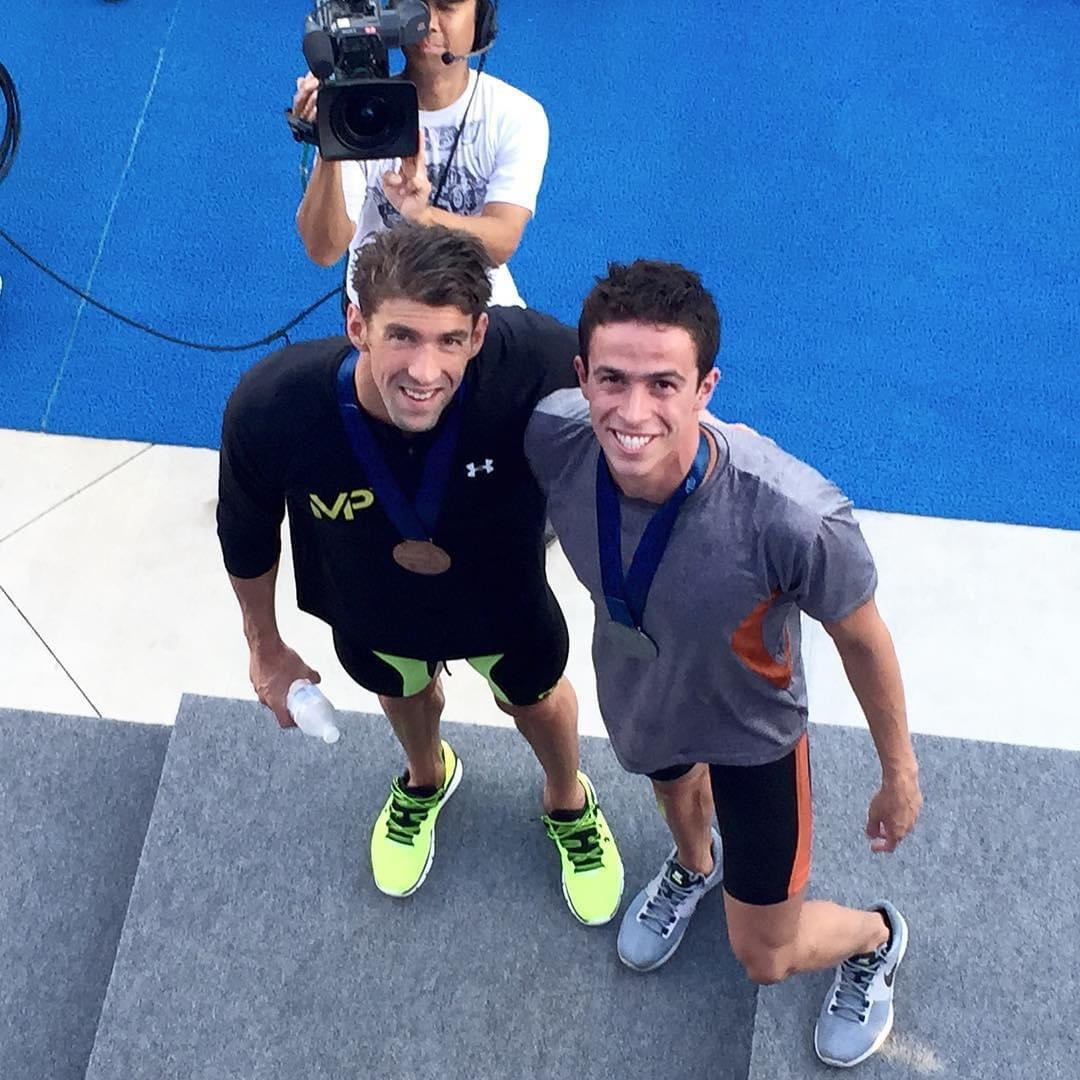 Phelps and Licon pose for a picture at the 2015 U.S. Nationals.